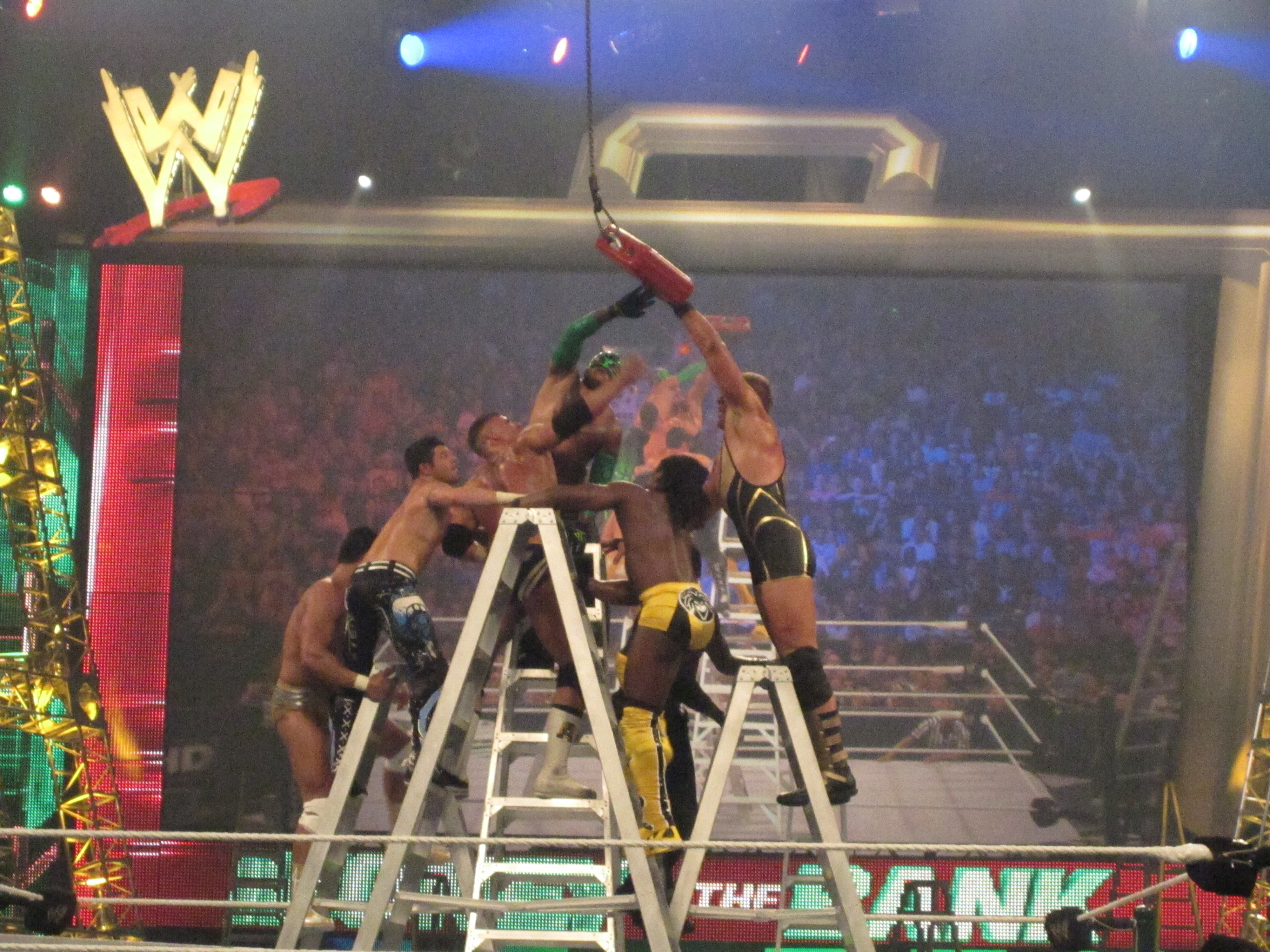 During the Money the Bank pay-per-view in Rosemont, Illinois on 17 July 2011, various professional wrestlers (from left to right; Alberto Del Rio, Evan Bourne, Alex Riley, Rey Mysterio , Kofi Kingston, R-Truth and Jack Swagger) fight on top of ladders in a Money in the Bank ladder match to retrieve the Raw Money in the Bank briefcase for a WWE Championship shot.